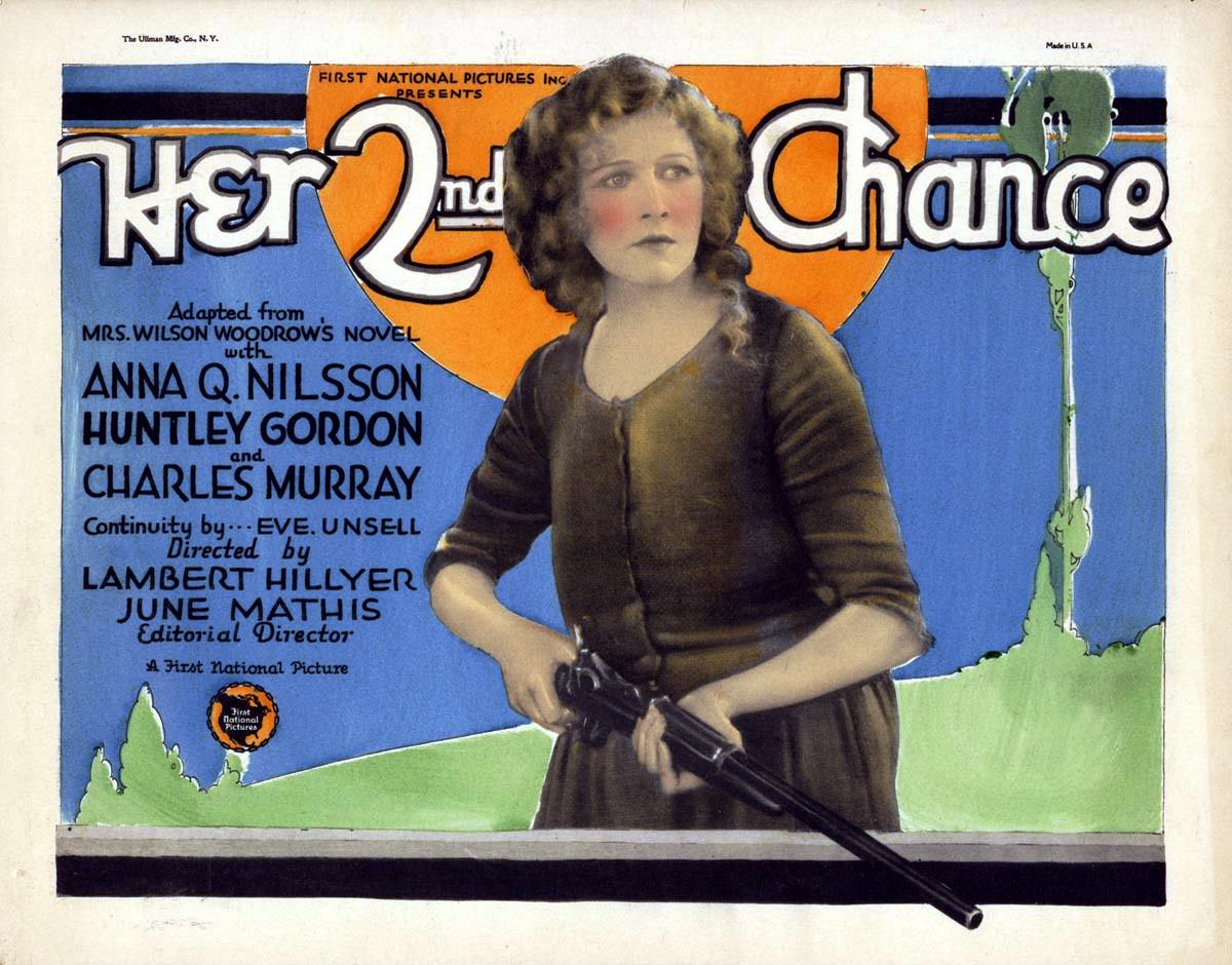 Lobby card for the American drama film Her Second Chance (1926).